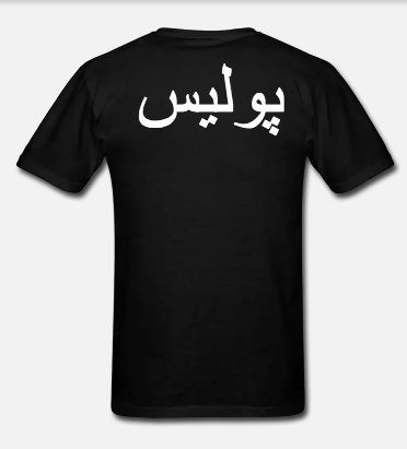 پاکستان پولیس کی وردی والی قمیض